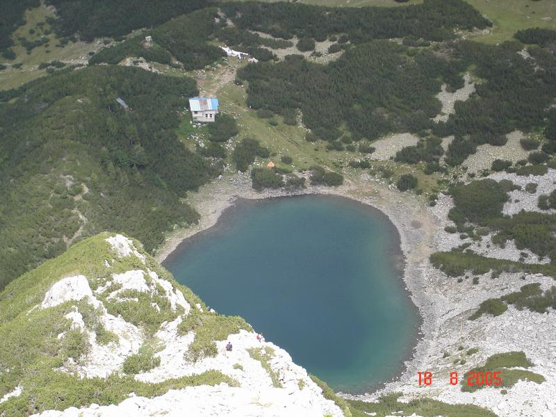 "Sinanitsa" - shelter in Pirin mountain in Bulgaria View from Sinanitsa summit.